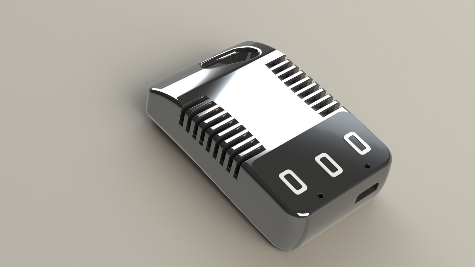 TraceME